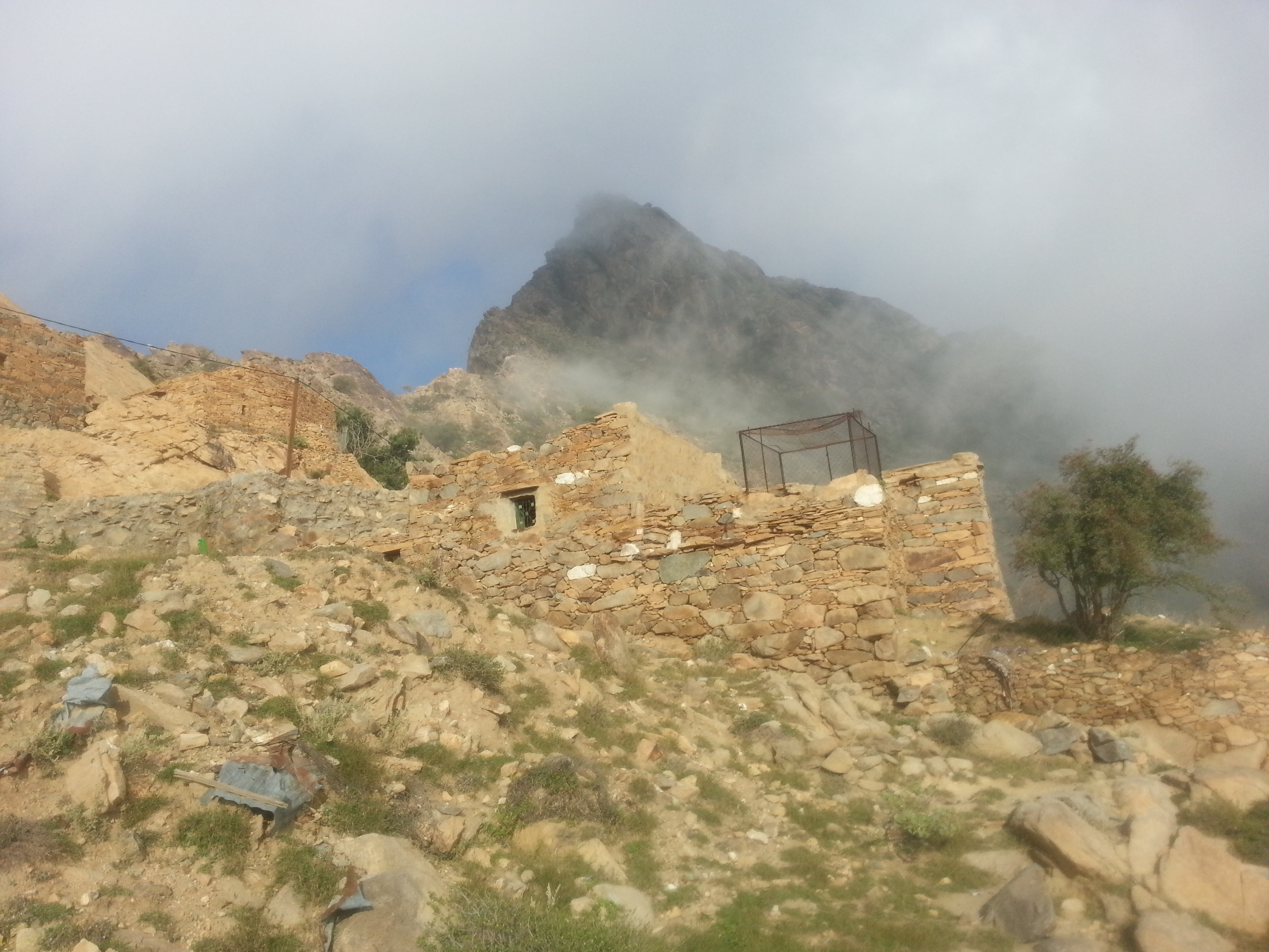 From jabal atherb - Bareq city